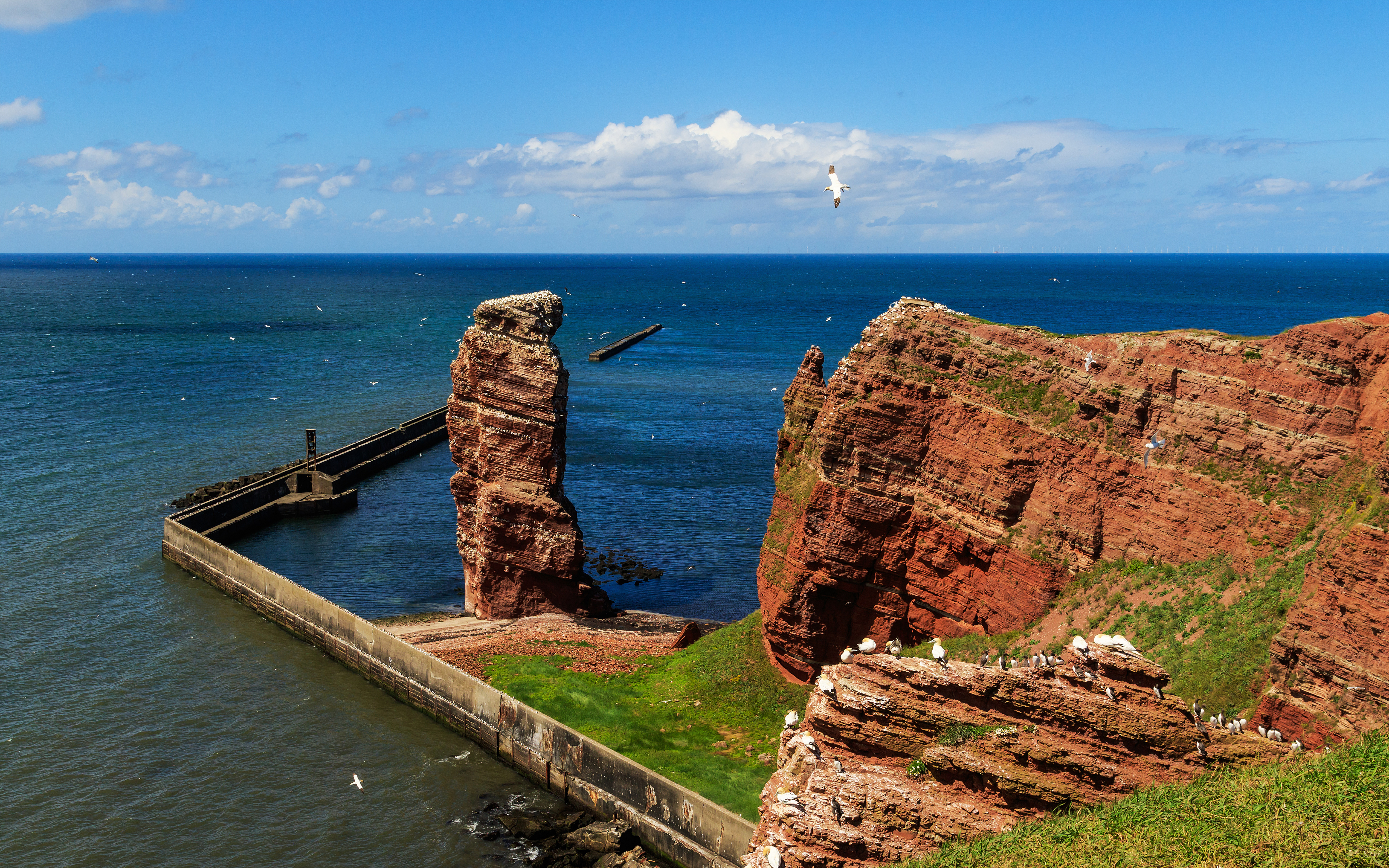 View of the cliffs from upper island of Heligoland, Germany